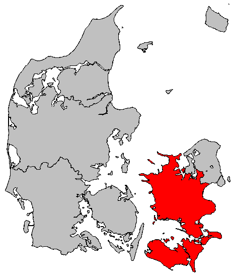 Location map of Region Sjælland in Denmark. Created by User:Valentinian based on Image:Map DK Odense.PNG created by User:Michiel1972 who released the latter image under PD.